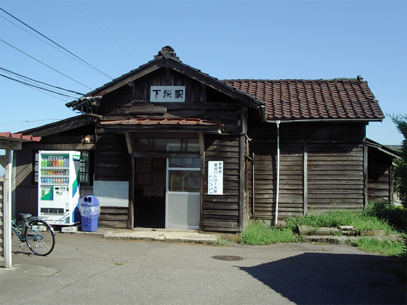 Shitadan Station on the Toyama Chiho Railway Tateyama Line in Tateyama, Toyama Prefecture, Japan